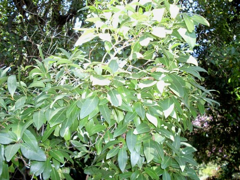 Beilschmiedia elliptica, leaves